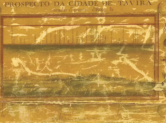 Tavira City as seen from the Bateria do Registo and saltmarshes at south, following the Gilao River. Appears as picture contained in an old map by.